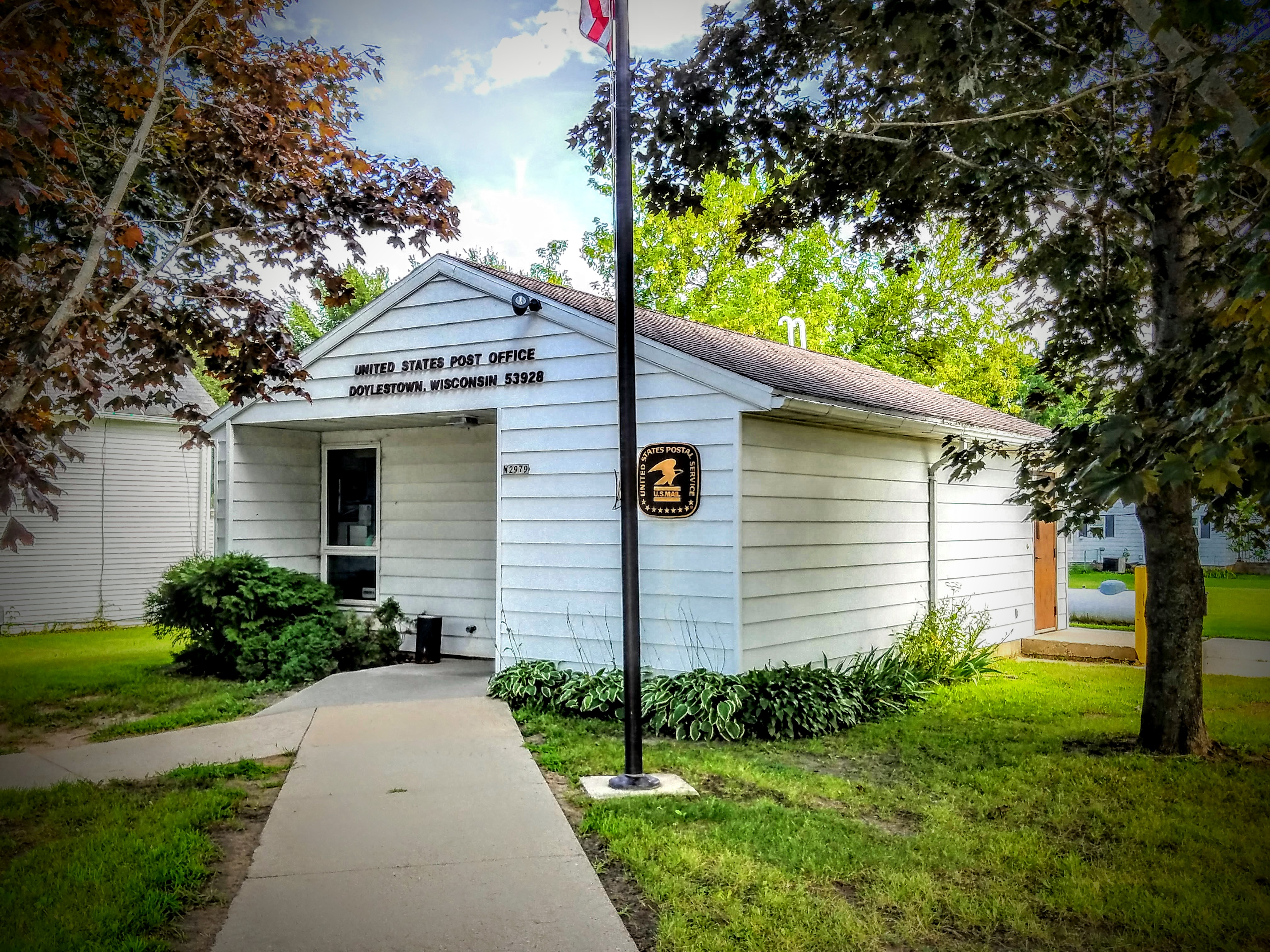 Doylestown Wisconsin Post Office front